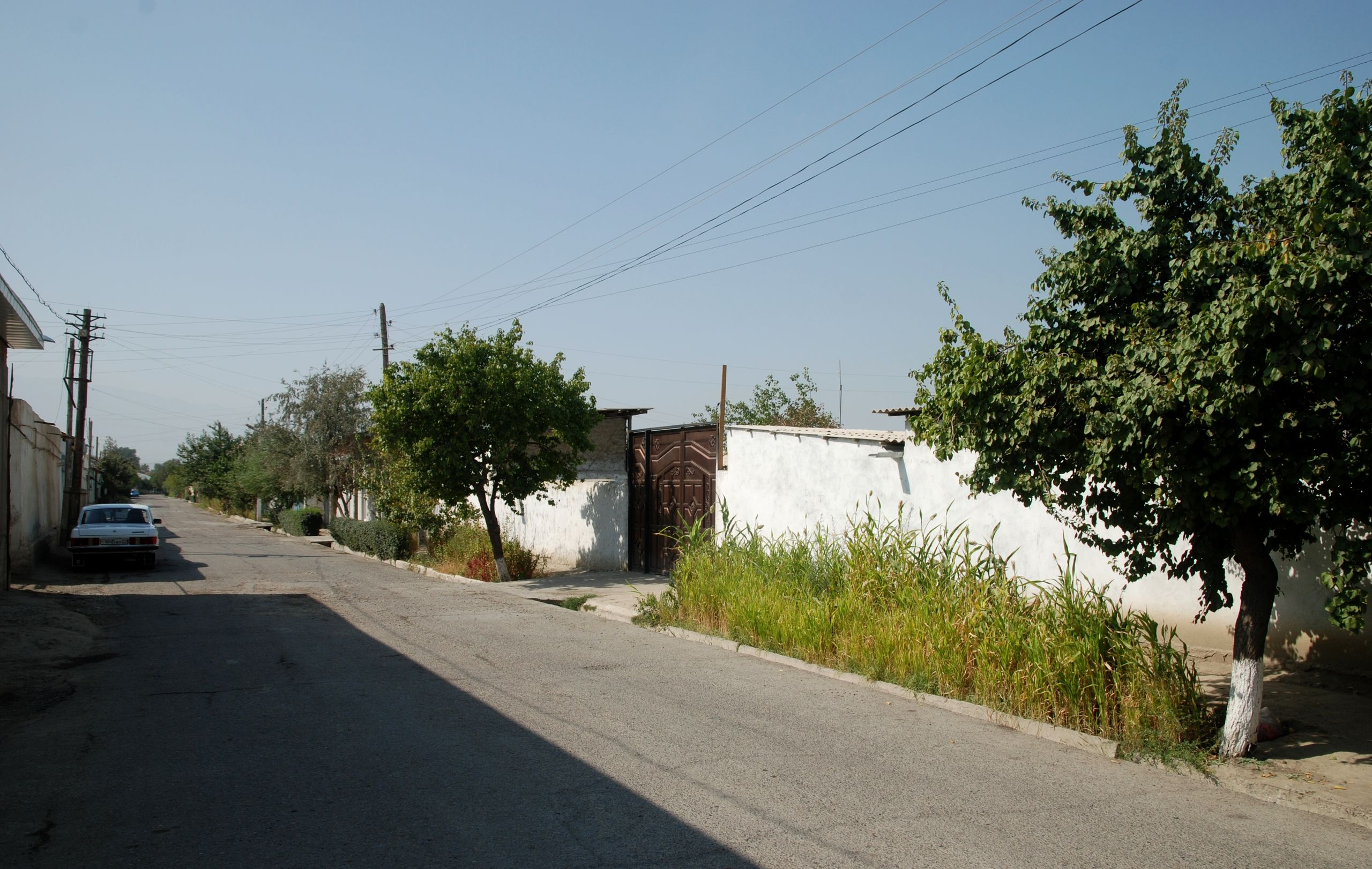 Konibodom, standard houses